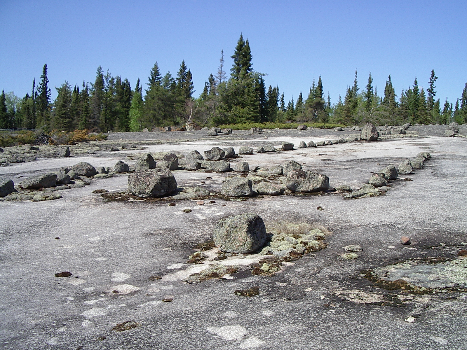 Petroform Photo 2 made by Joseph Prymak, or josephprymak, in 2007, at Whiteshell Provincial Park, Manitoba, Canada